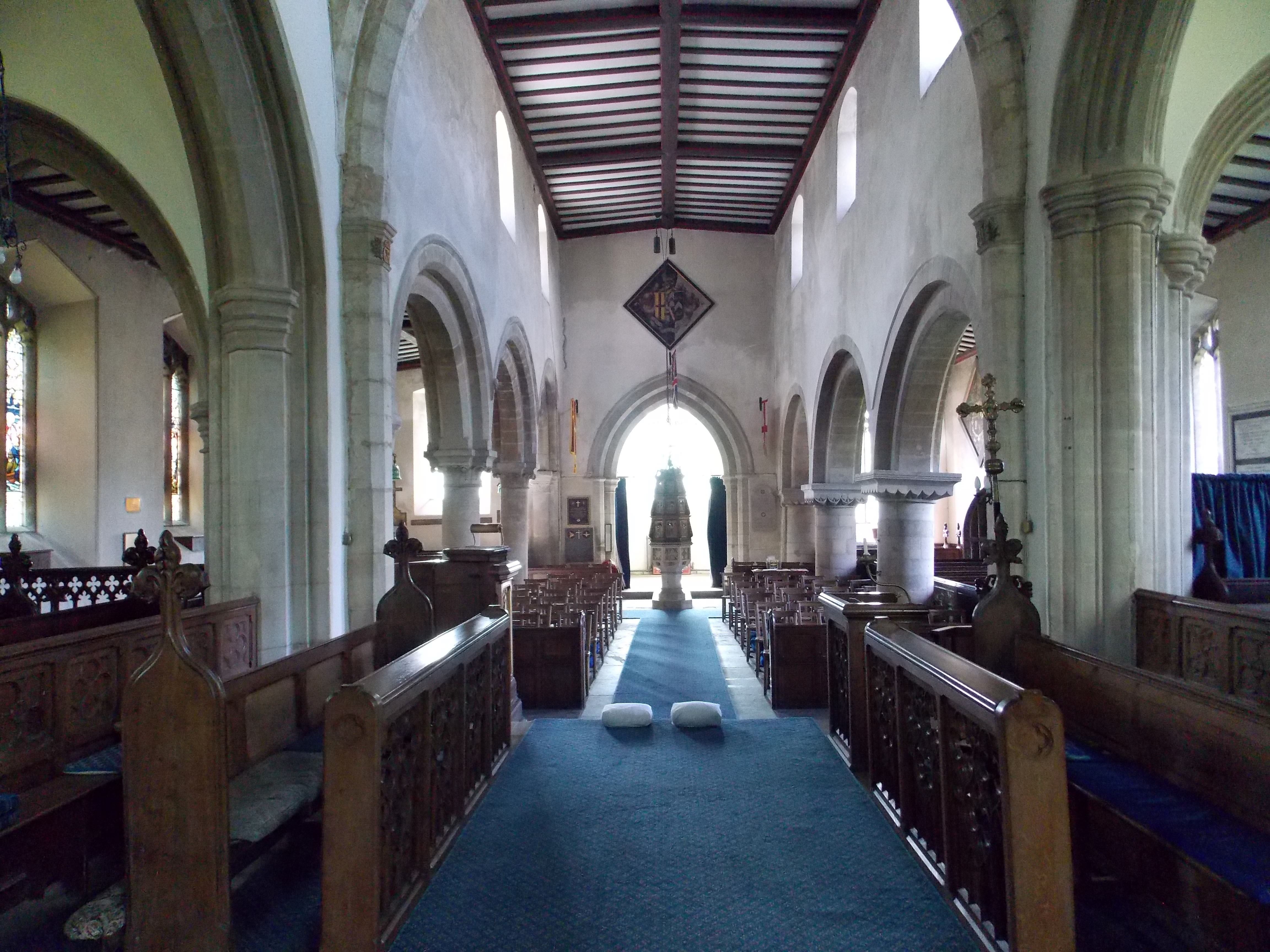 Ss Mary & Andrew, Stoke Rochford, interior - nave from the chancel